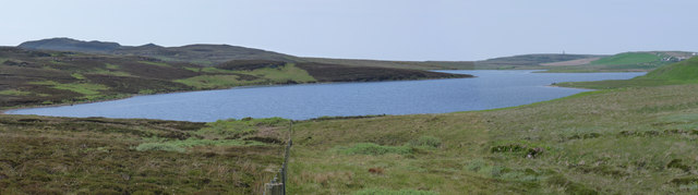 Loch Kinnabus - Isle of Islay Loch Kinnabus on the Oa